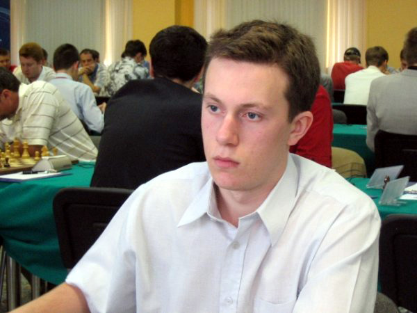 Arkadij Naiditsch, European Championship Warsaw 2005